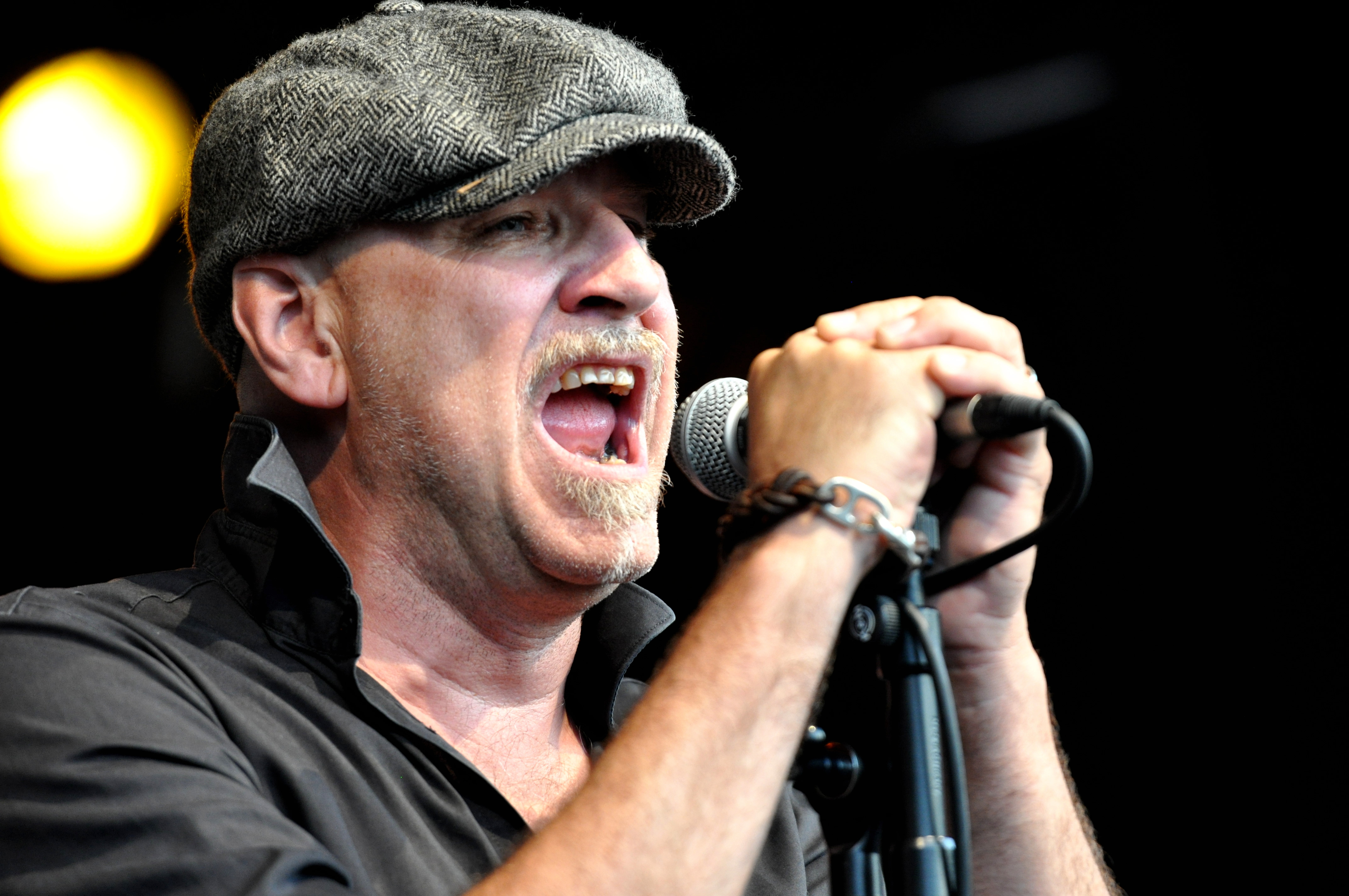 BalticSeaChild (DEU), Folk am Neckar 2015, Mosbach-Neckarelz, Germany Festivalsommer This photo was created with the support of donations to Wikimedia Deutschland in the context of the CPB project "Festival Summer".